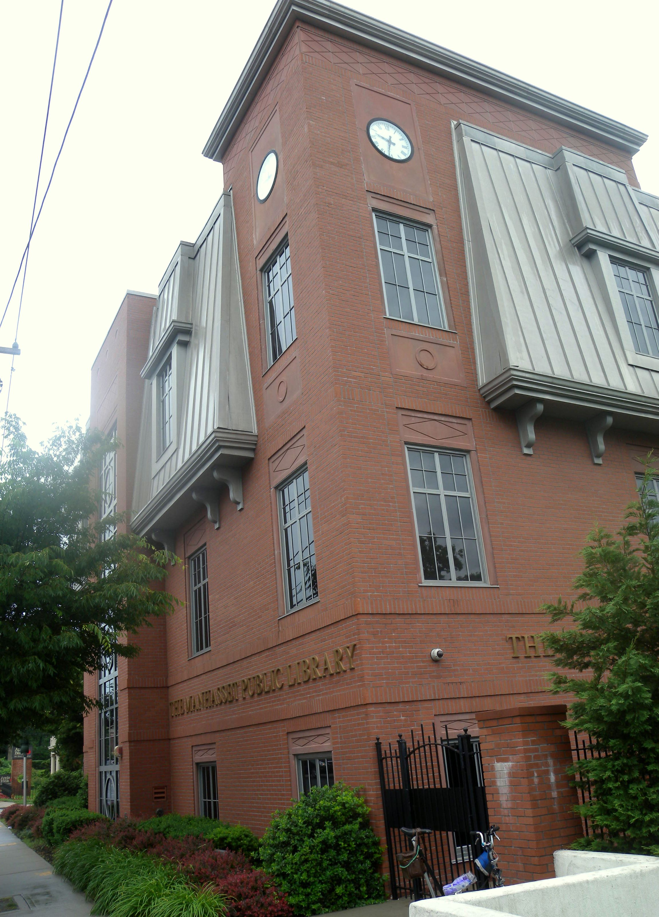 Looking west at new Manhasset Public Library on a rainy morning.